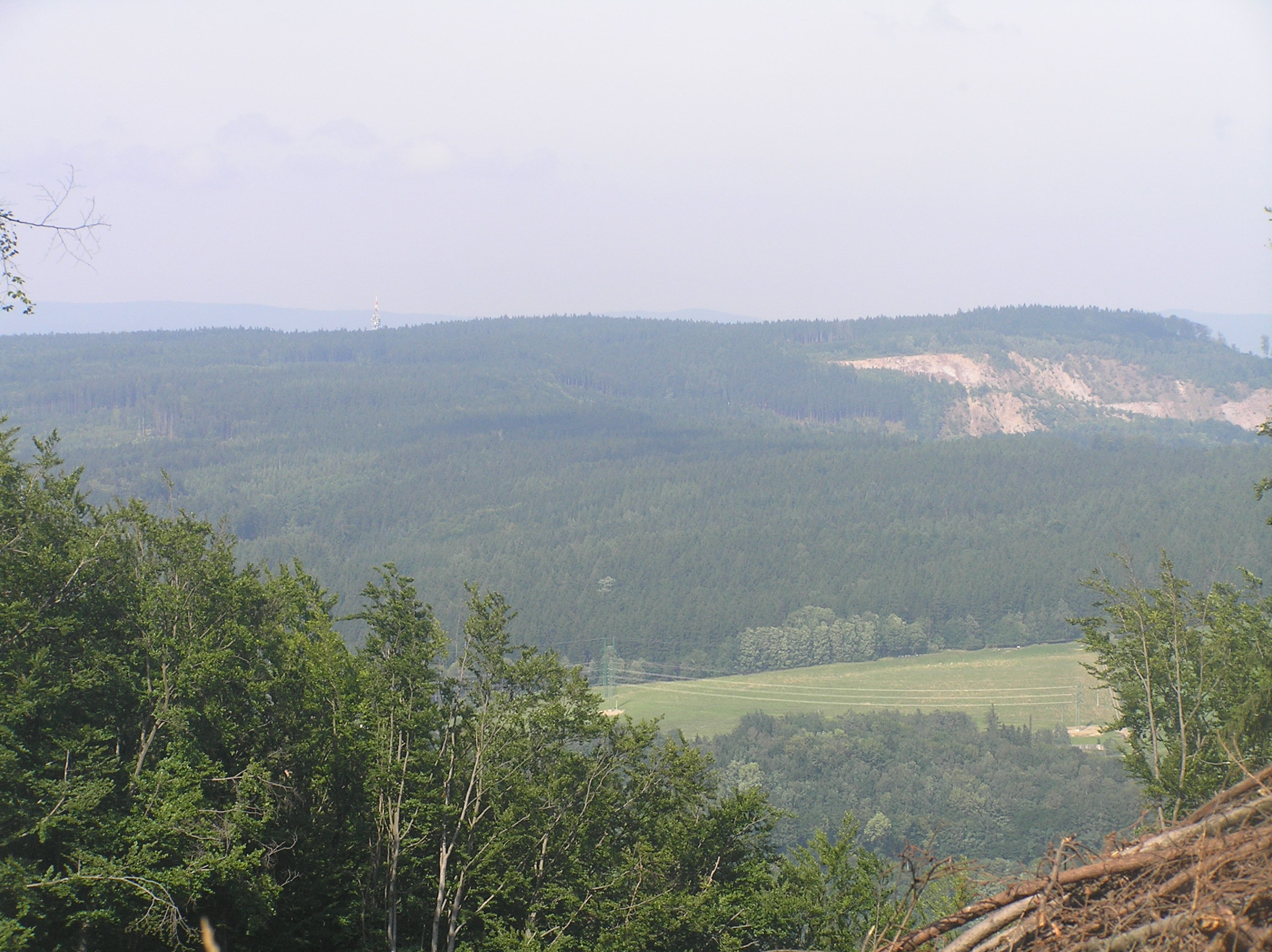 Litický chlum, the hill in the Eastern Bohemia, Czech Republic